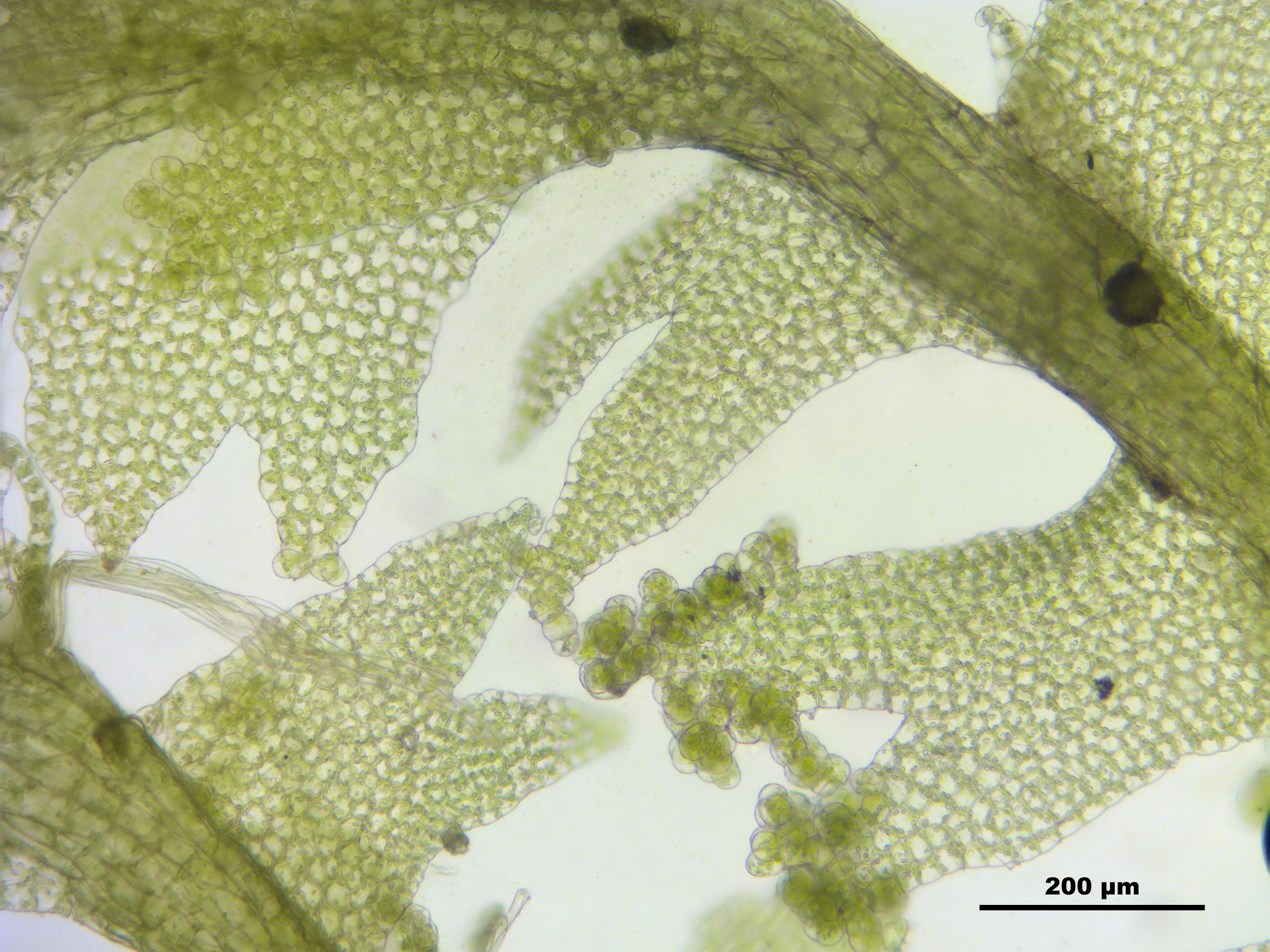 Chiloscyphus minor